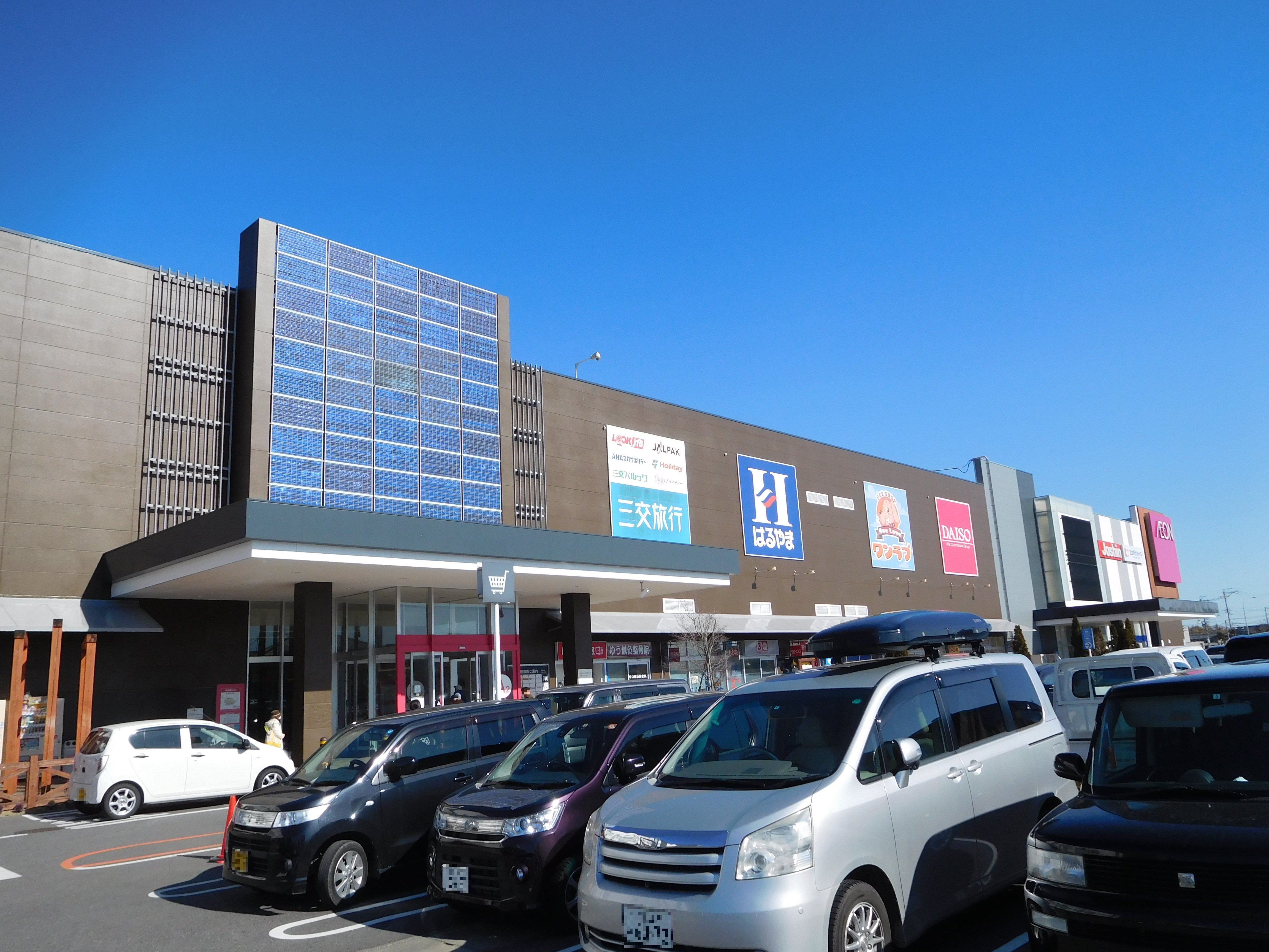 This is the AEON TOWN Tsu Shiroyama, which is located in Hisai-Kononbecho, Tsu, Mie, Japan.